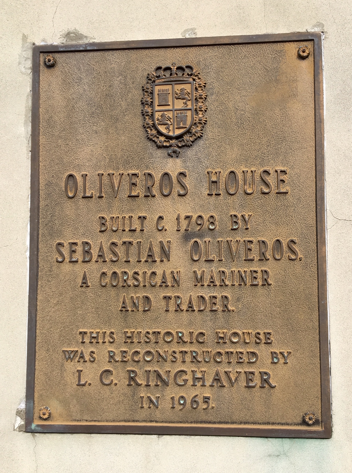 Plaque on the Oliveros House in St. Augustine, FL that reads "Oliveros House, built c. 1798 by Sebastian Oliveros, a Corsican mariner and trader. This historic house was reconstructed by L.C. Ringhaver in 1965.